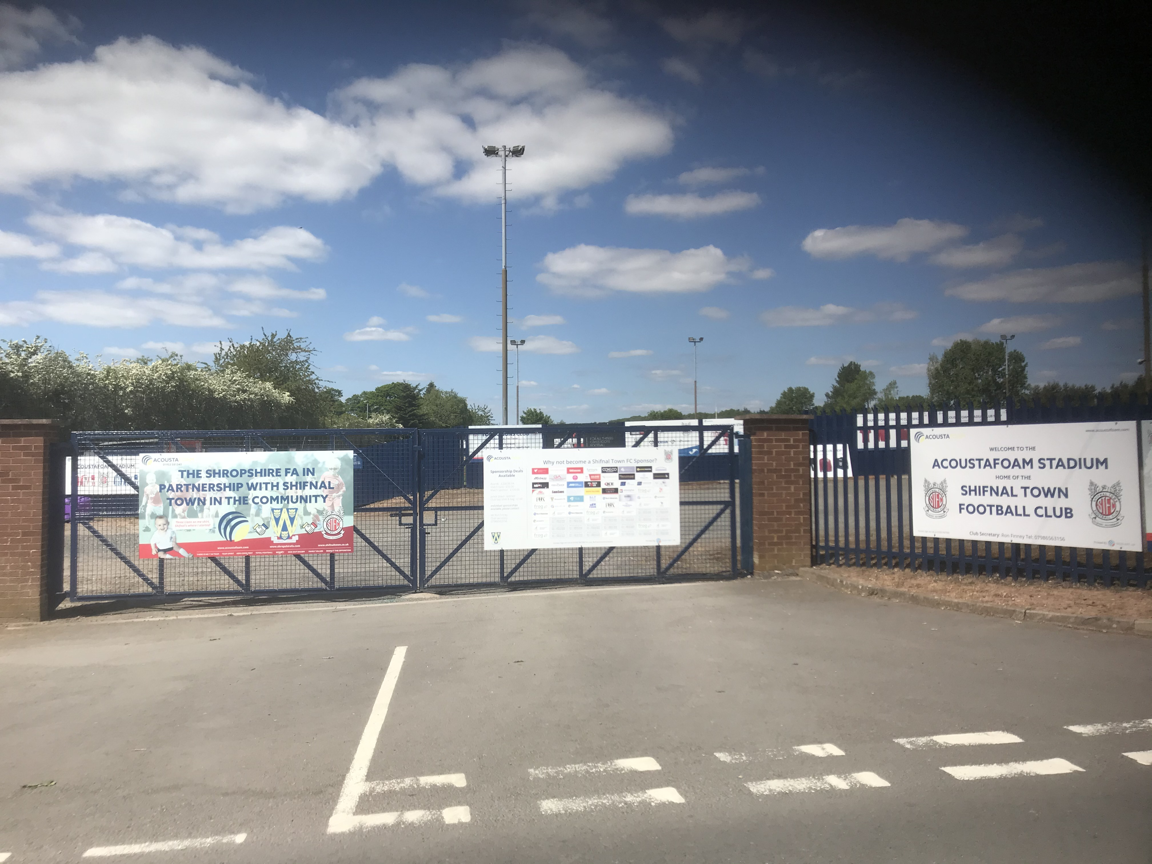 Main gate, entrance to car park. Sponsors board and Shropshire FA support